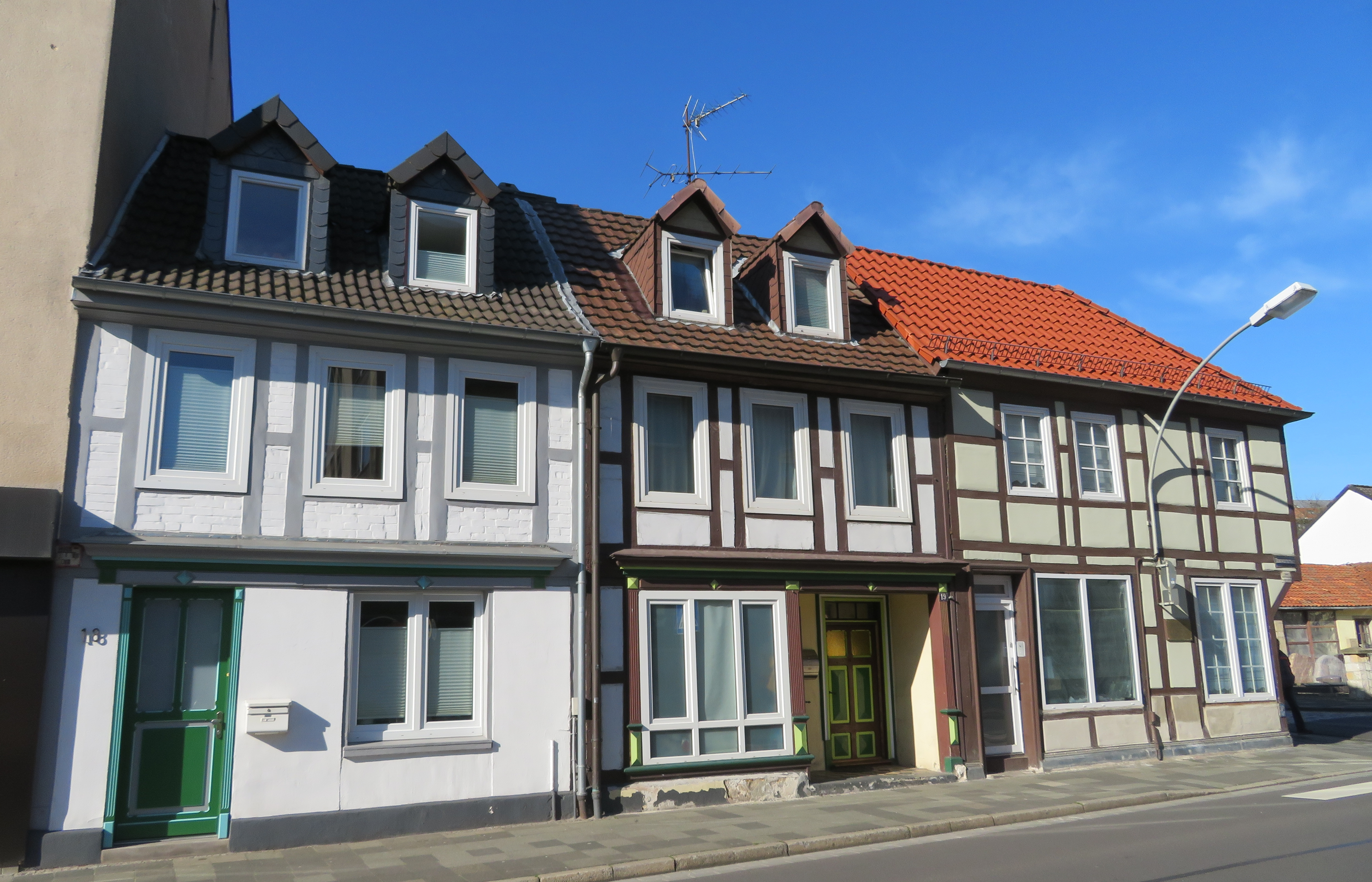 Shepherds' houses (built 1840), Moritzberg, Dingworth Street, City of Hildesheim, Germany